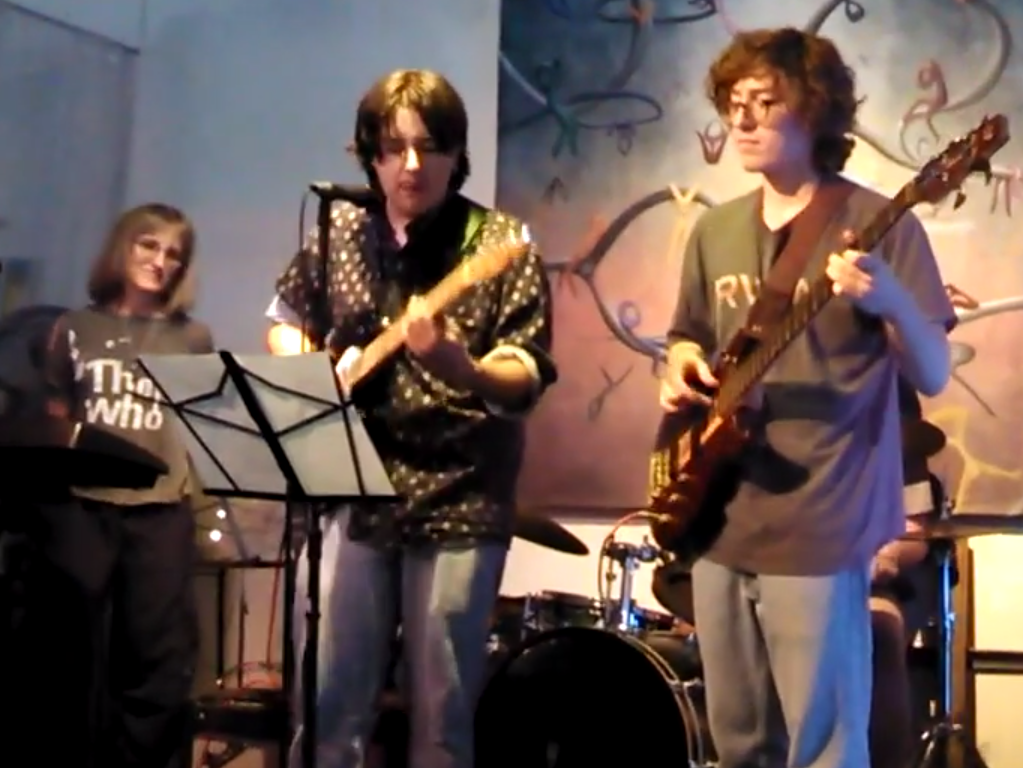 Nan Becker and the Wheels, performing songs by Alternate Learning at a memorial tribute to Scott Miller in Sacramento, CA, on July 20, 2013. Left to right: Nancy Becker (keyboards), Fletcher Gallawa (guitar), Drew Diatroptoff (bass). Not visible: Zach Kennedy (drums).